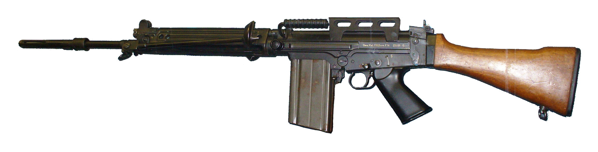 FN FAL, Belgian self-loading rifle